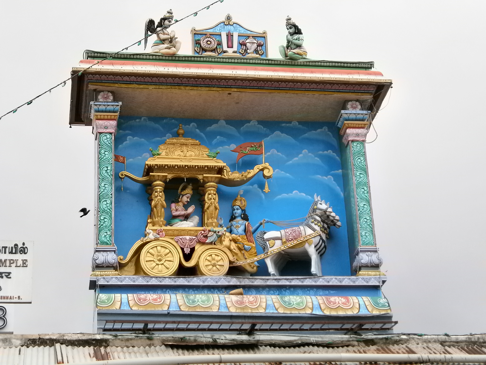 Parthasarathy Temple Triplicane Chennai Photo - 2